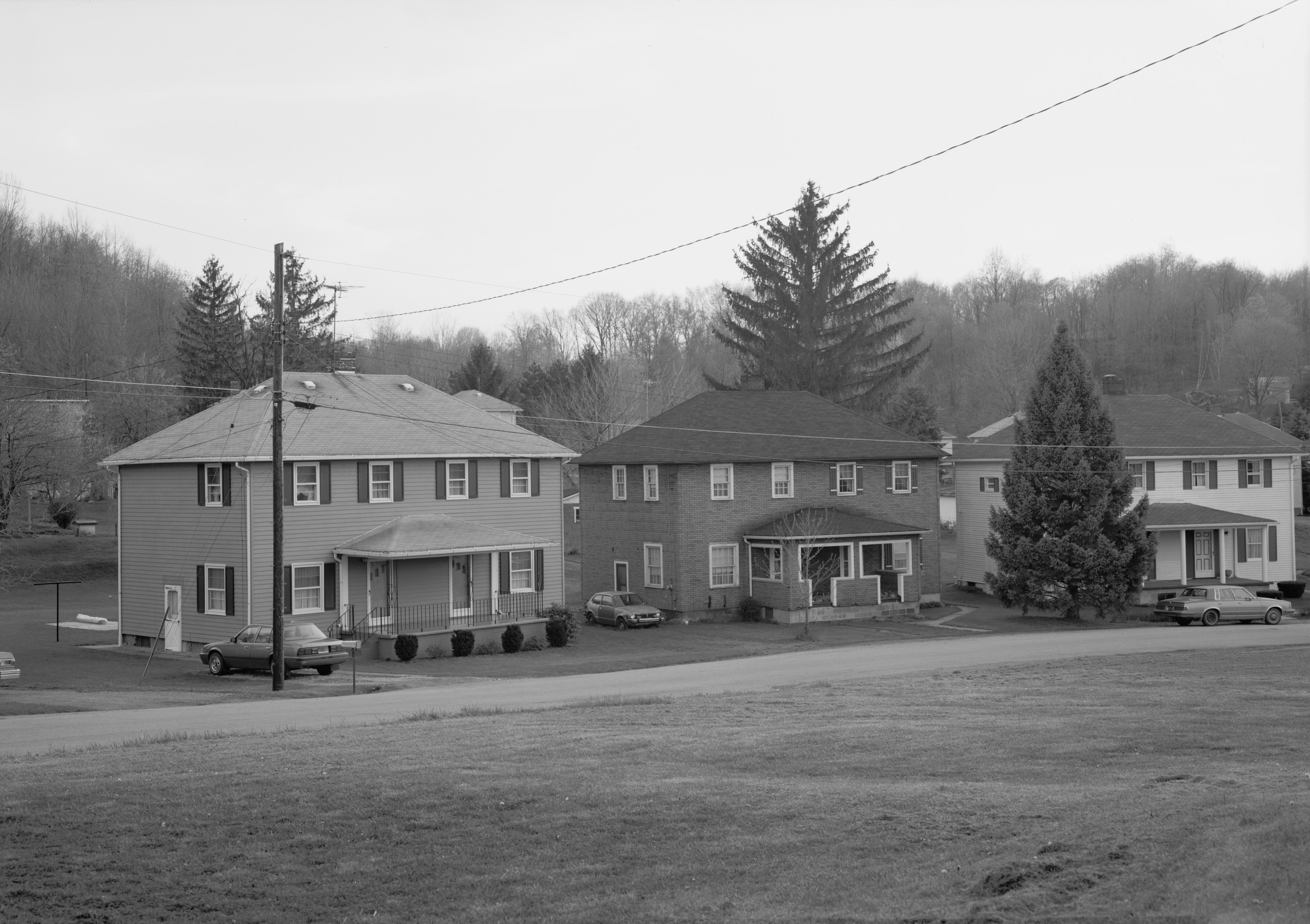 Houses on First Avenue in Slickville, an unincorporated community in Salem Township, Westmoreland County, Pennsylvania, United States. First Avenue is part of the Slickville Historic District, a historic district that is listed on the National Register of Historic Places.